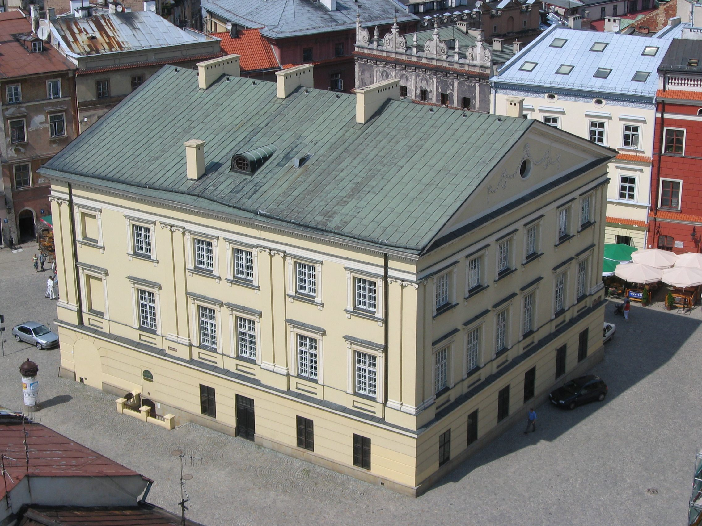 Crown Tribunal in Lublin – view from the Trinitarian Tower